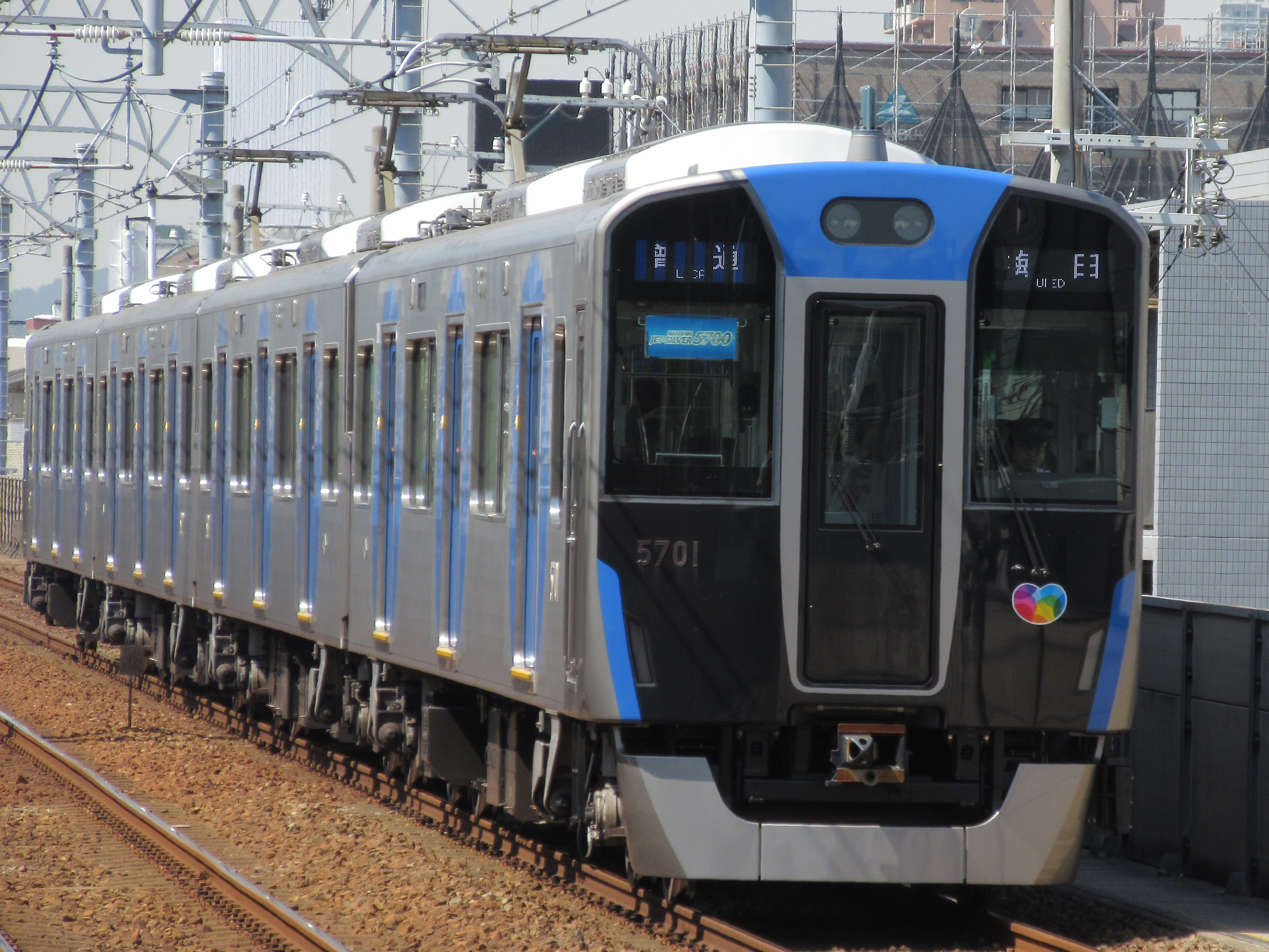 Hanshin 5700 series EMU set 5701 approaching Shinzaike Station